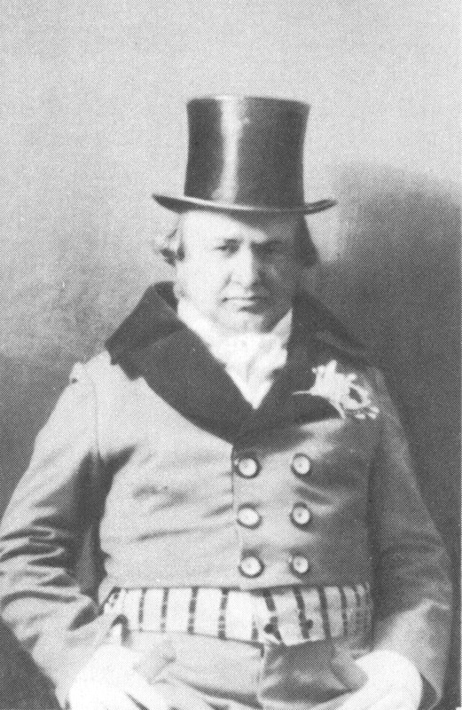 "The Cricket on the Hearth" performance by Charles Dickens, 1914